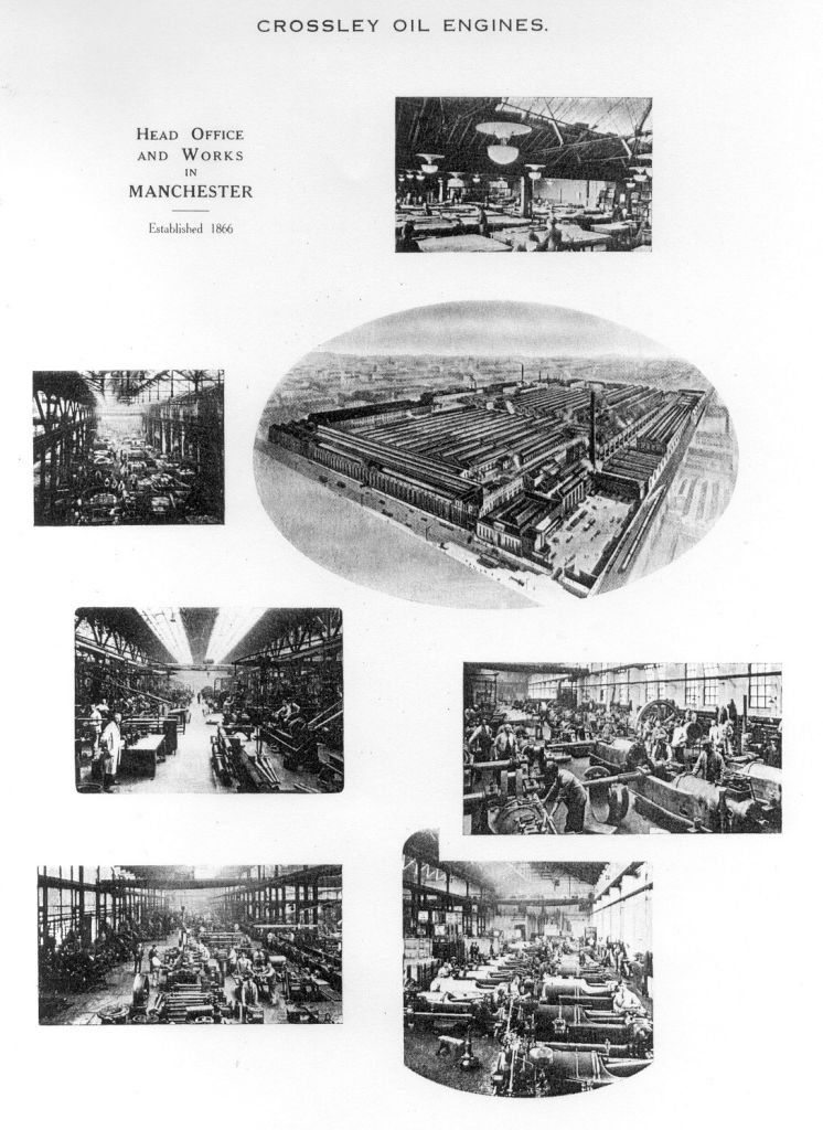 Crossley works